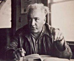 Wilhelm Reich (March 24, 1897 – November 3, 1957) was an Austrian-American psychiatrist and psychoanalyst, known as one of the most radical figures in the history of psychiatry. He was the author of several notable books, including The Mass Psychology of Fascism and Character Analysis, both published in 1933. _________________________________________________________________________ By a belated interest in Freud, I found information about a famous individual, Wilhelm Reich, in Wikipedia. Reich's theory about energy captured my interest. It is with a certain amount of shame that I confess I had never heard of Reich or his theory. Now, in the autumn of my life, I ask myself if I would have benefited intellectually had I known about "orgone energy" when I was in my youth. Would my life been enriched if I had known how to apply the orgone theory to my lifestyle, or was I applying this theory to my life but without a name to identify it in some manner. Some might say that "sowing one's wild oats" would be a simple way to identify such a theory. Nevertheless, it is with some regret that I am just now learning about Wilhelm Reich.